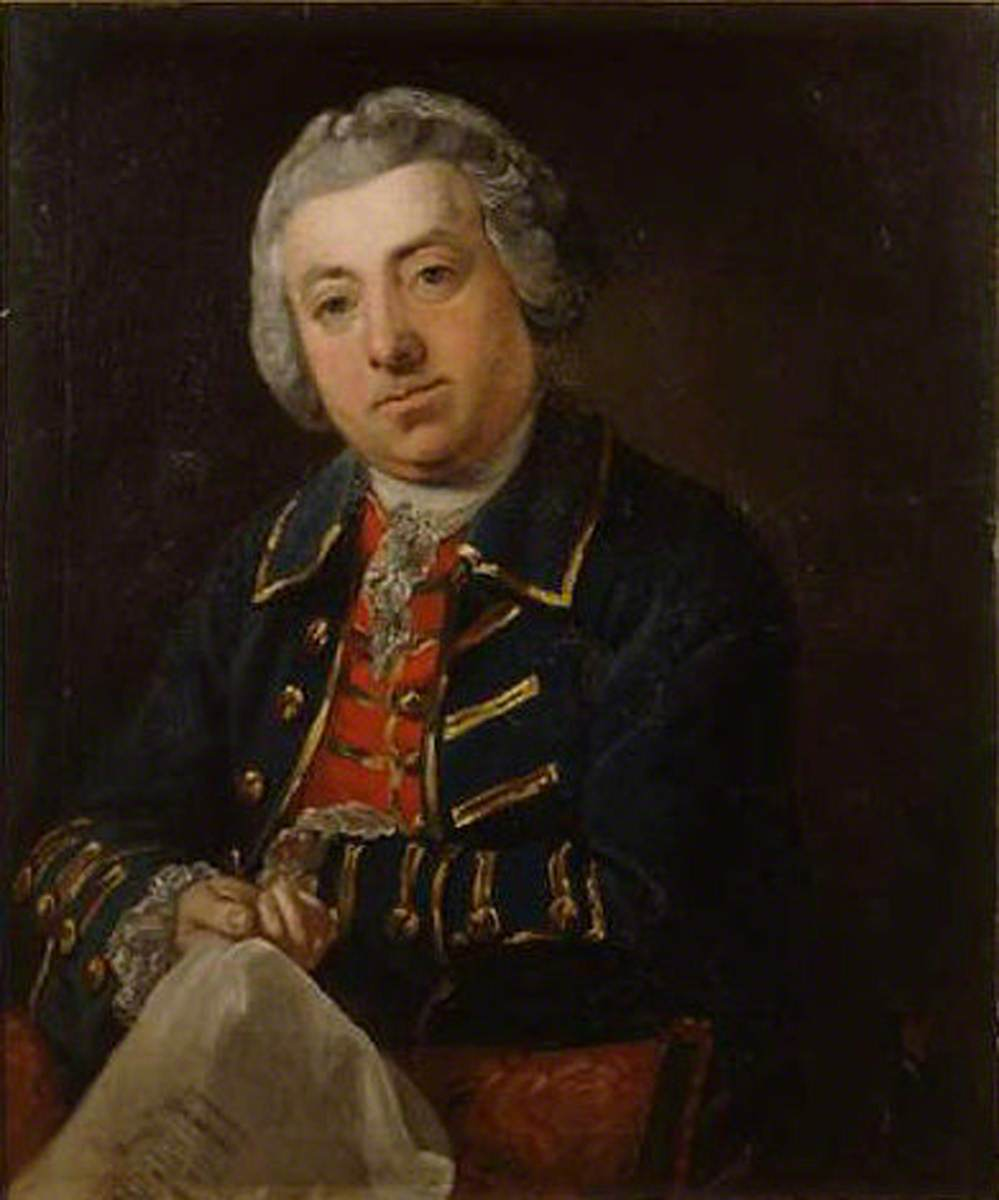 Portrait of Bernard Ward, 1st Viscount Bangor (1719–1781), Irish politician and peer.